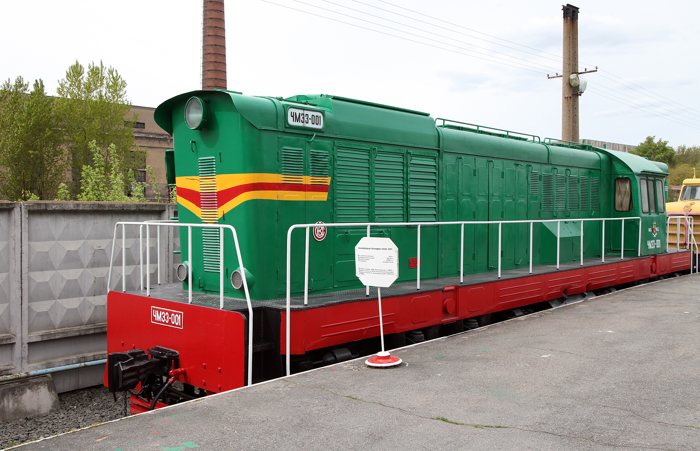 ChME3-001 diesel locomotive